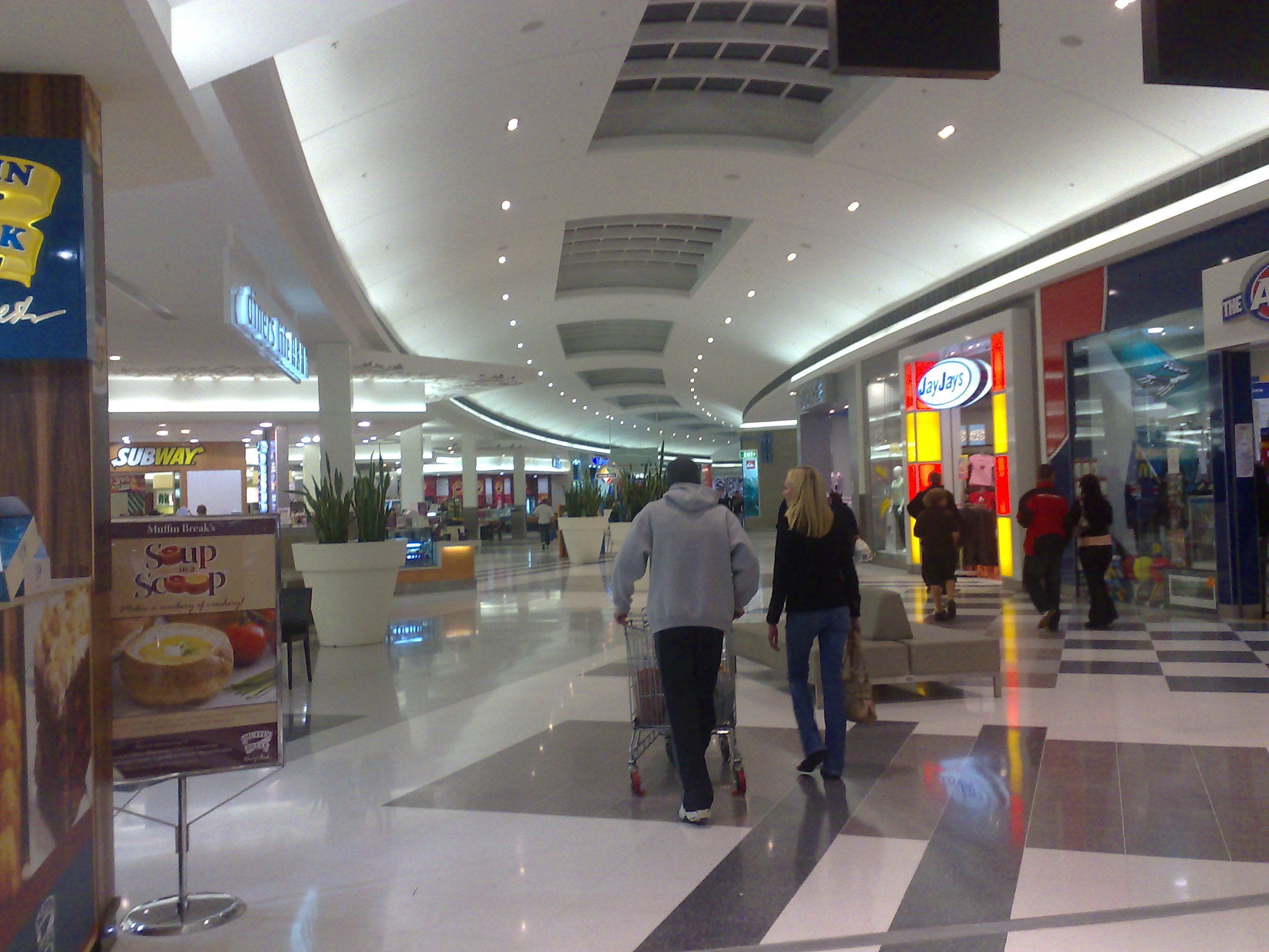 Centro Colonnades.